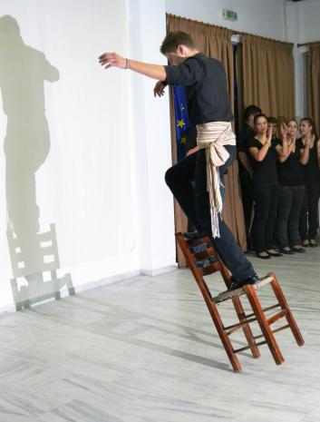 Greek dance school